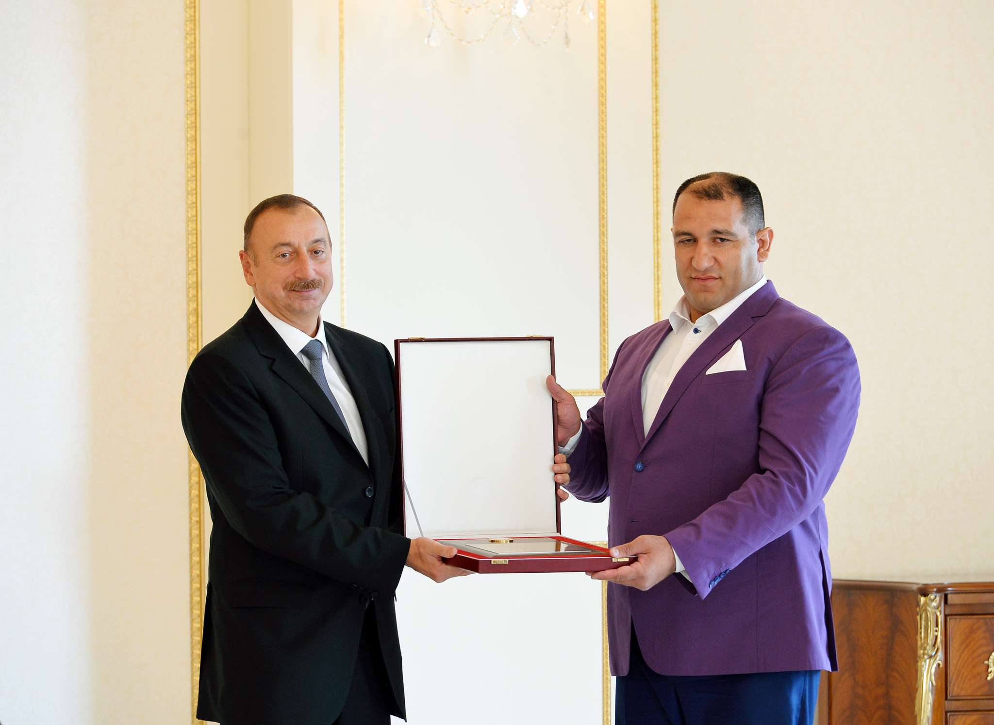 Ilham Aliyev met with athletes who competed in 15th Summer Paralympic Games